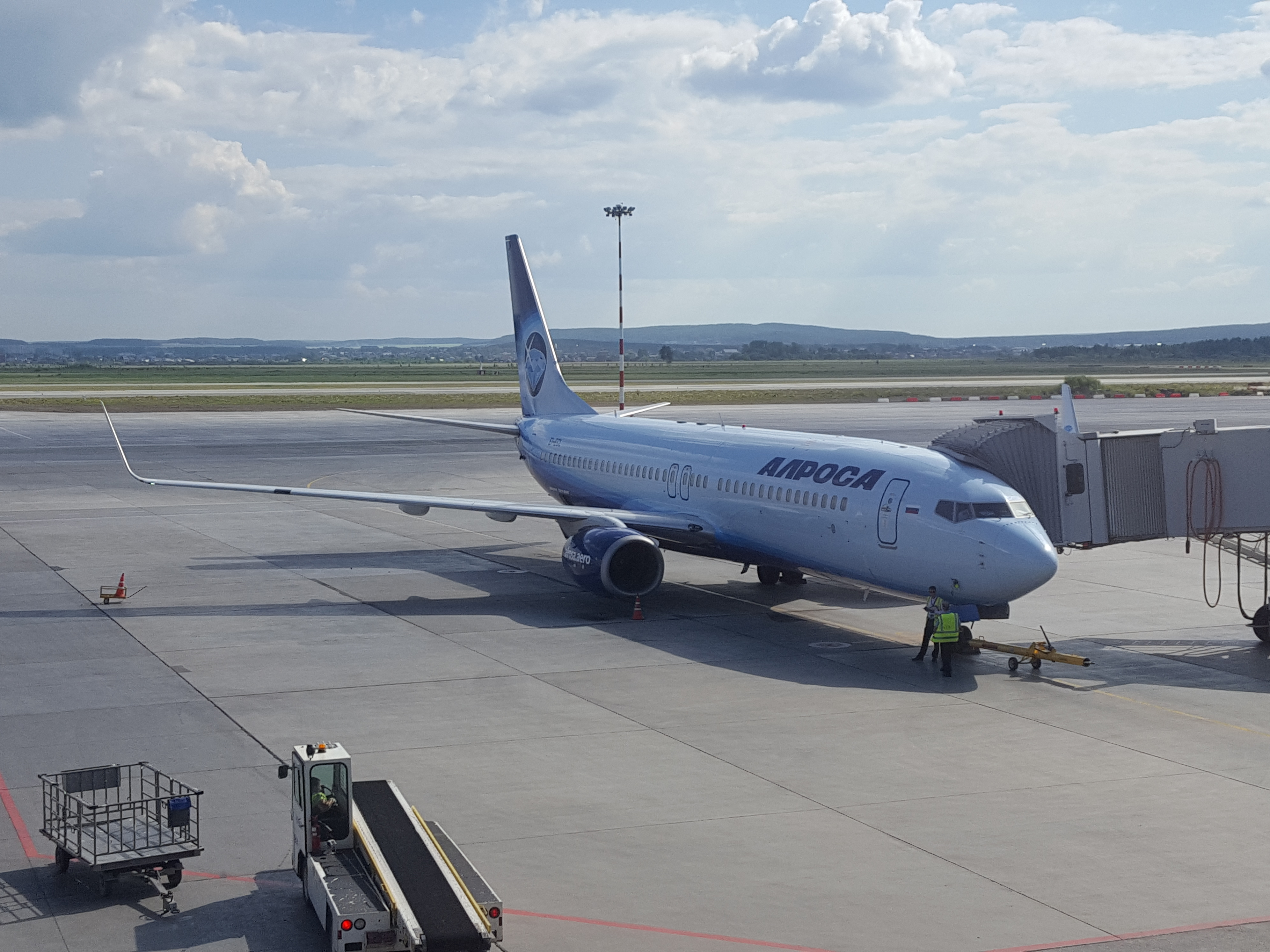 Boeing 737-86N from Alrosa Airlines at Koltsovo Airport (Yekaterinburg) in June 2016, registration EI-ECL